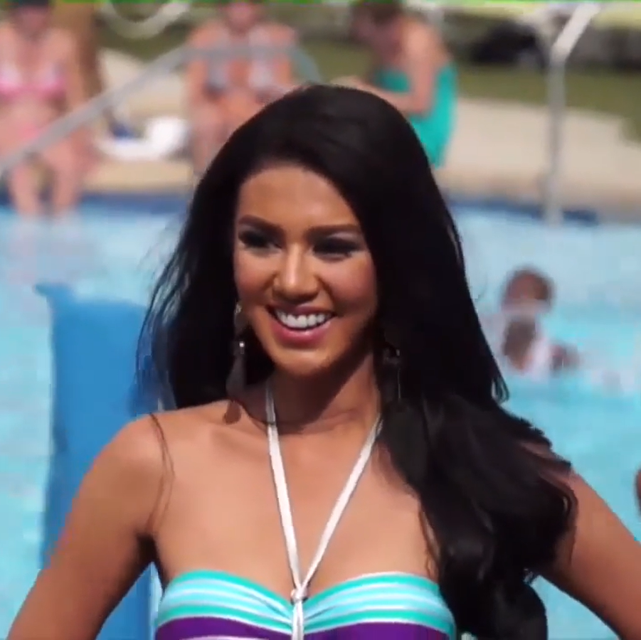 Ariska Putri Pertiwi, during the swimsuit competition in Las Vegas, USA (screen capture from video by Seng12900 .beautypageant on YouTube)